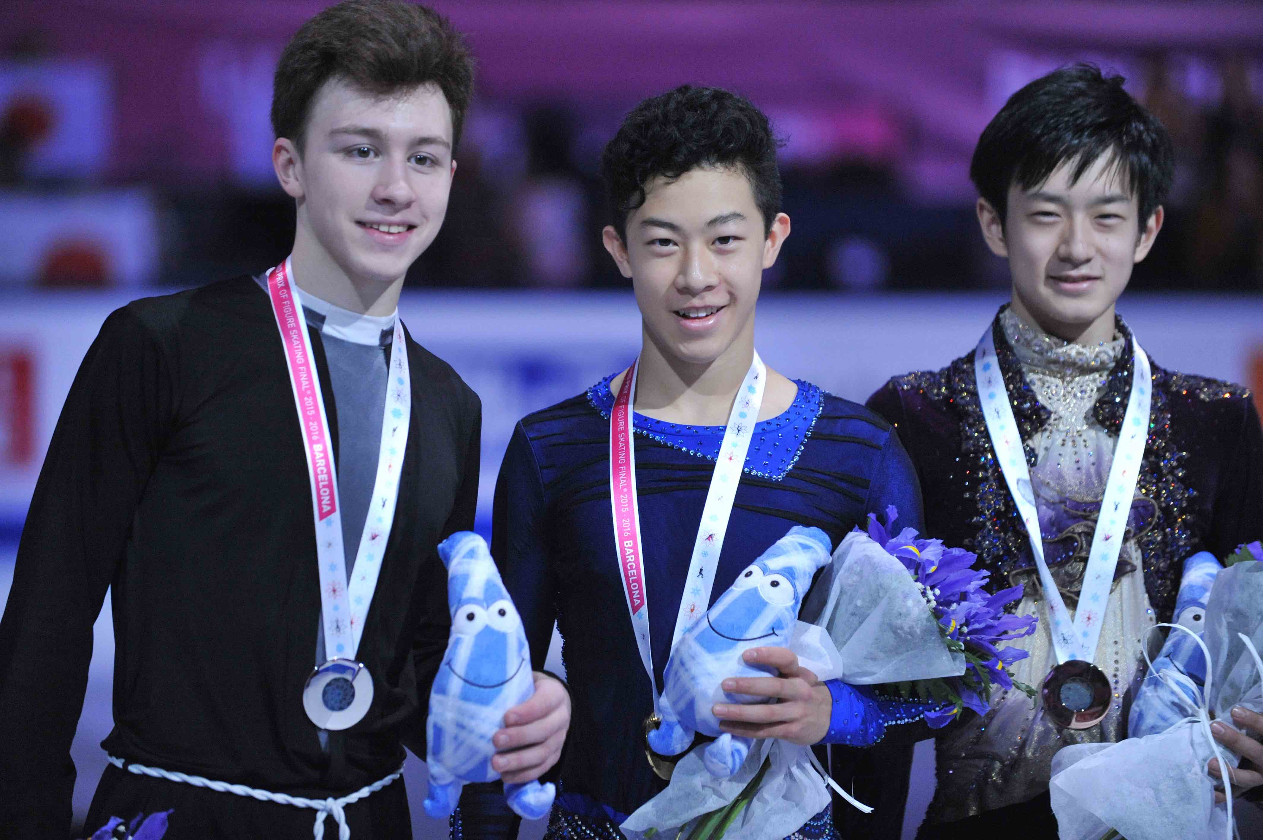 Medalists of 2015 JGPF - Nathan Chen, Dmitri Aliev, Sota Yamamoto